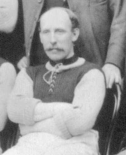 Jack Reynolds cropped from the Aston Villa team photo of 1897.